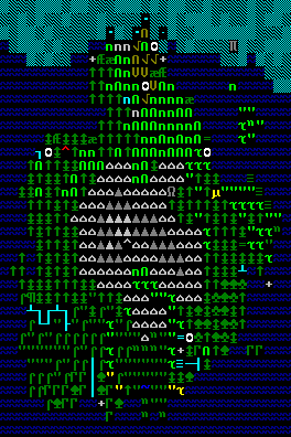 Example of Dwarf Fortress world map